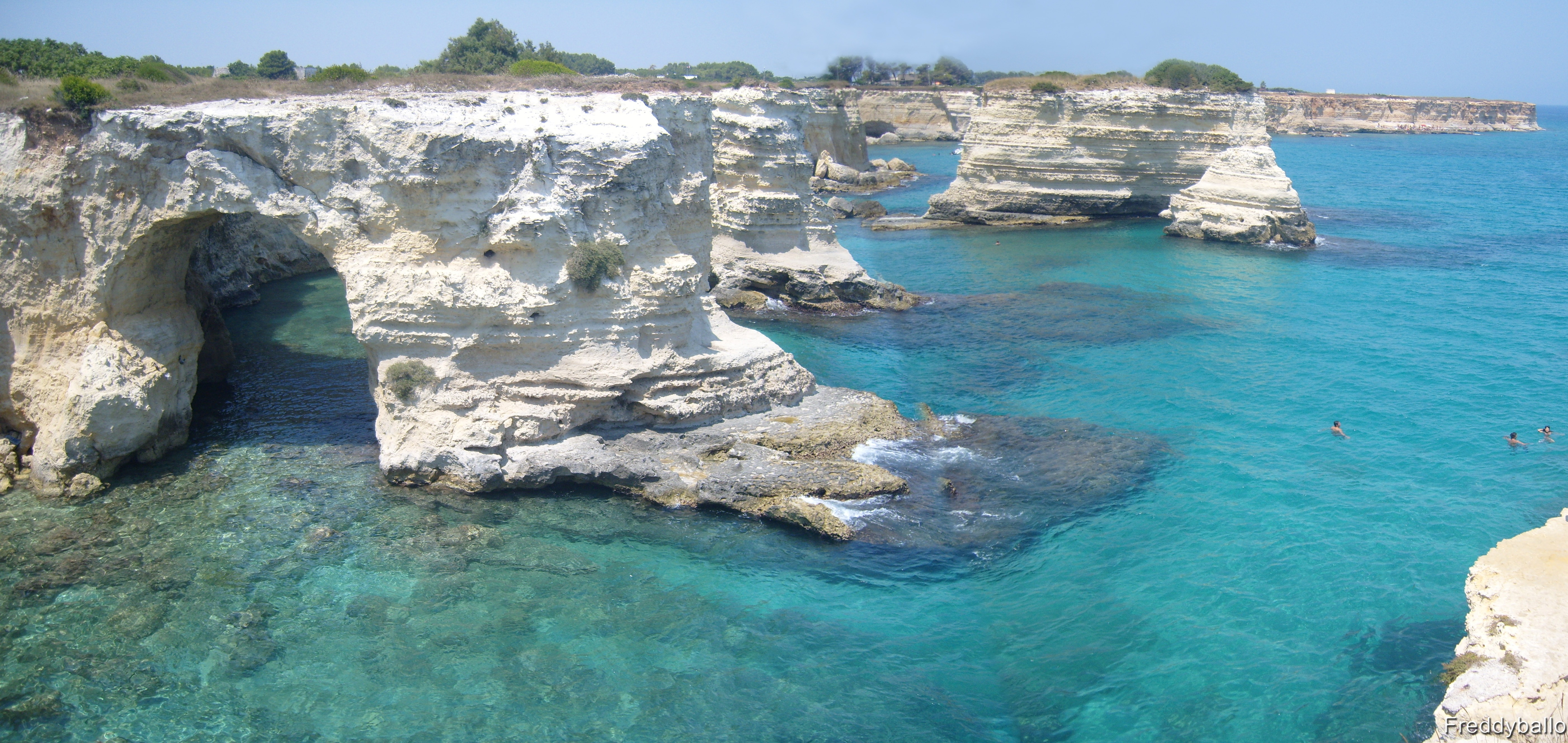 Panoramic view of the Bastimento in Torre Sant'Andrea, Adriatic sea. It is a bathing locality part of the town of Melendugno, Province of Lecce, Italy